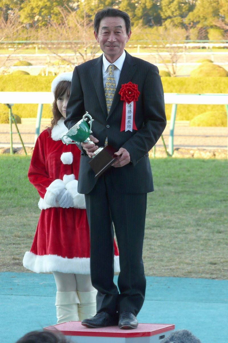 Terumasa-Moriyasu20091220